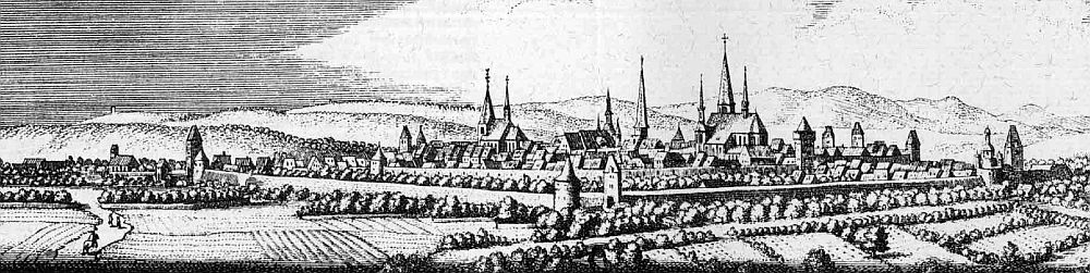 This is a scan of the historical document: Title: Duderstadt - Topographia Hassiae language: german